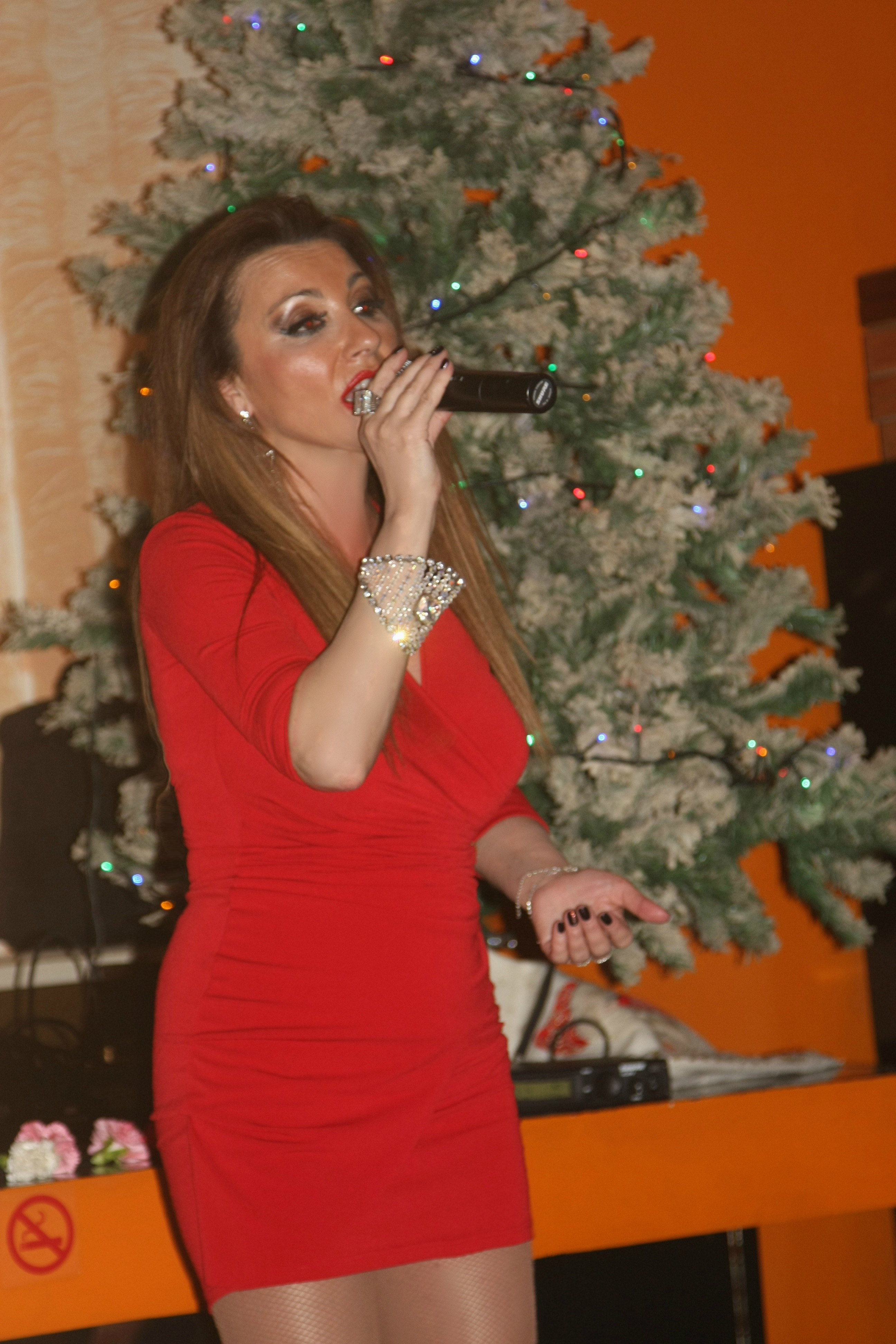 Popi Maliotaki live act at club in Athens